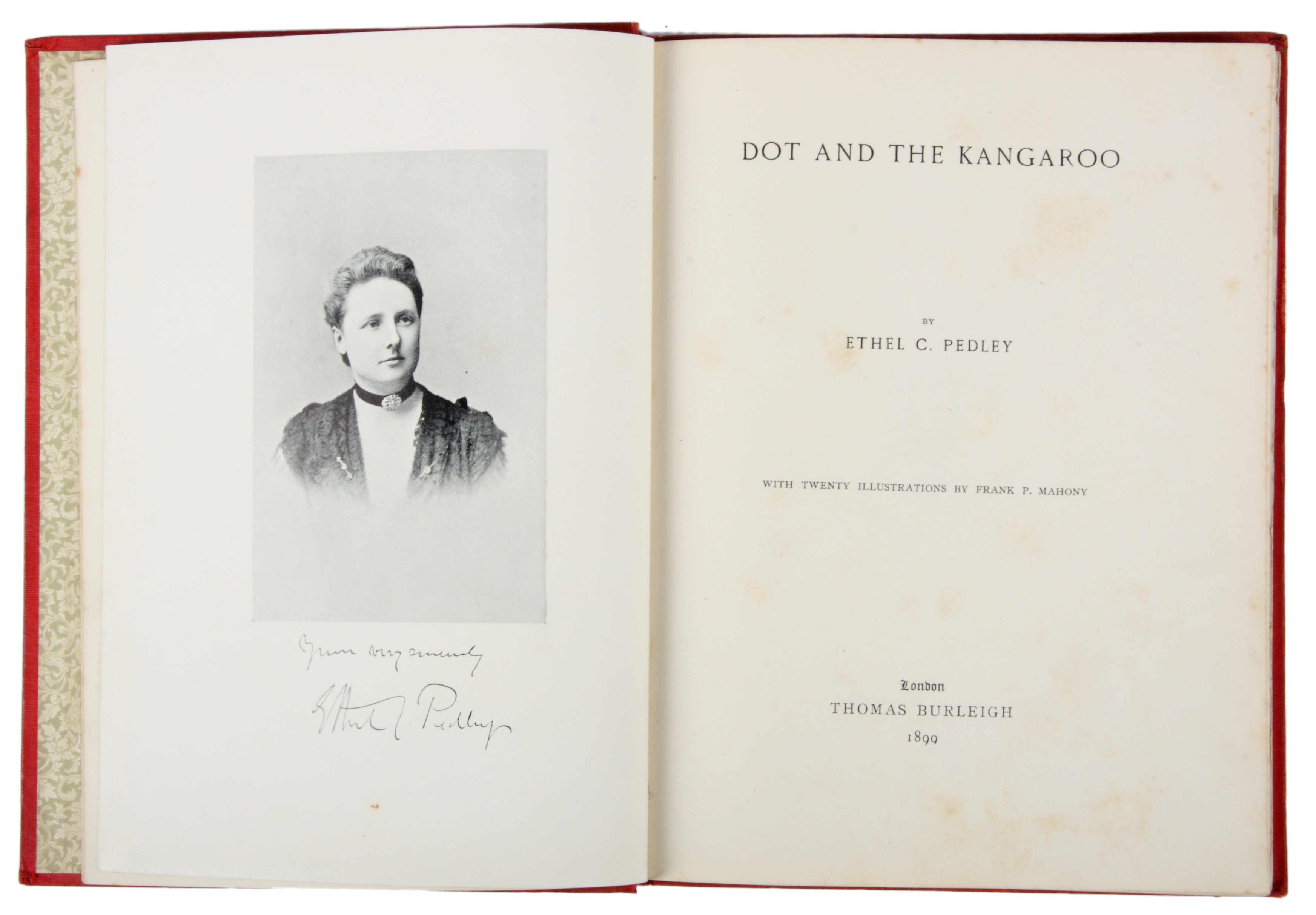 A scan of the author and title page of a first edition copy of Dot and the Kangaroo. It includes a photo of author, Ethel Pedley along with a copy of her signature.